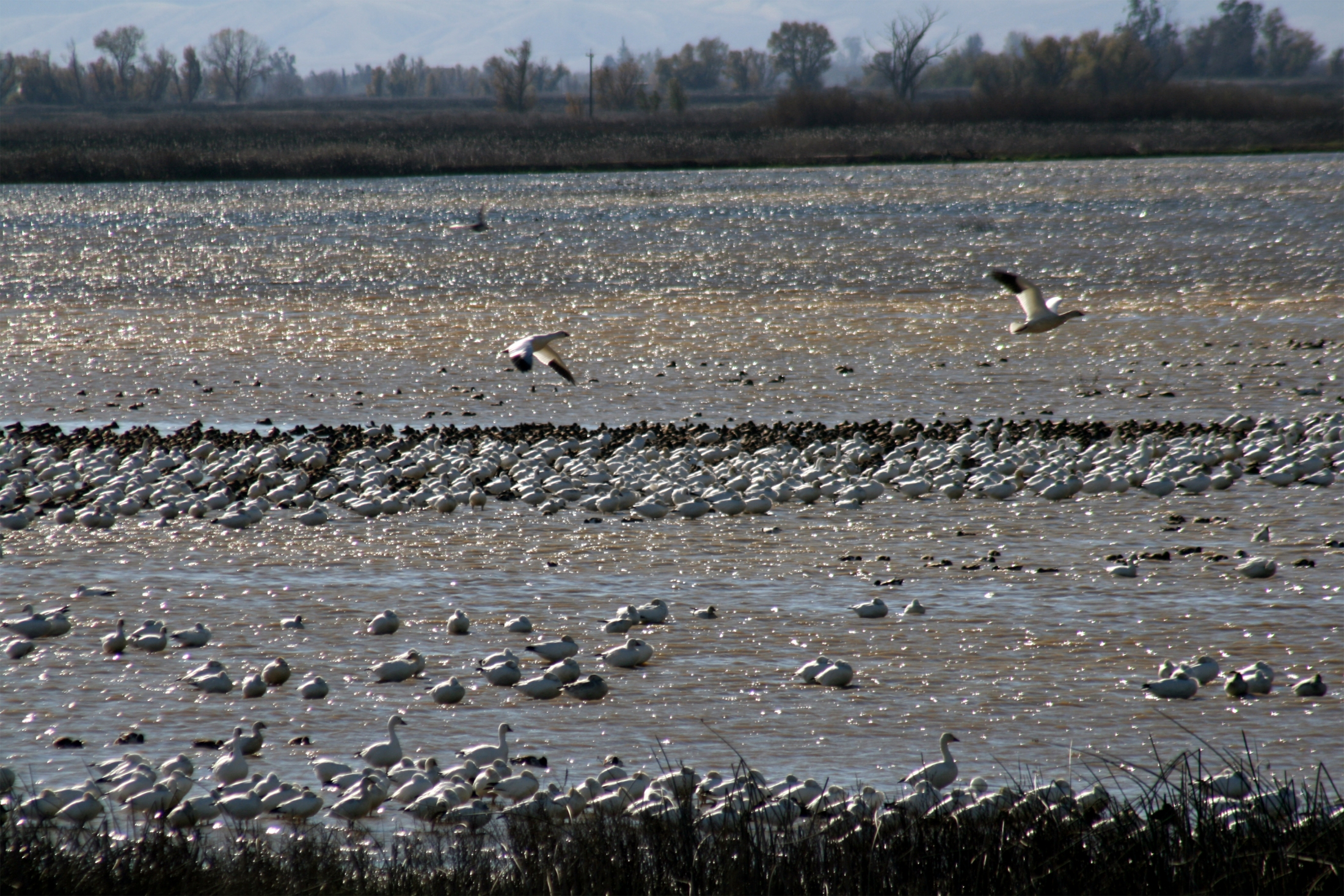 Snow geese, Anser caerulescens and the Moon at Sacramento National Wildlife Refuge